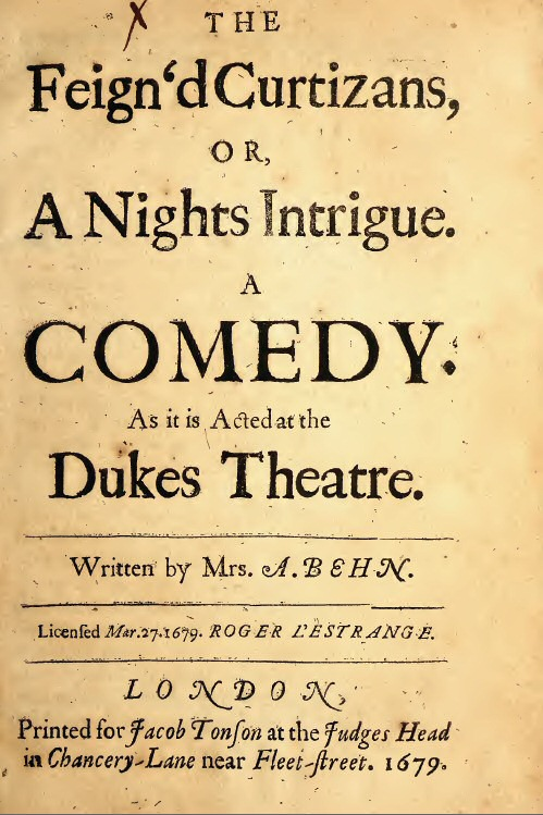 Title page of play, worded 'The Feign'd Curtizans, or A Nights Intrigue. A COMEDY. As it is Acted at the Dukes Theatre. Written by Mrs A. Behn. Licensed Mar.27.1679. ROGER L'ESTRANGE. LONDON, Printed for Jacob Tonson at the Judges Head in Chancery Lane near Fleet-Street. 1679.'